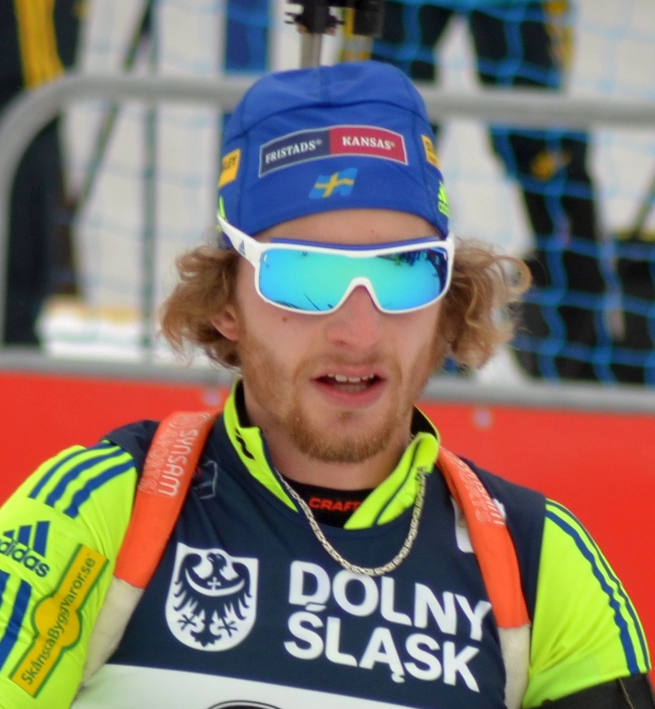 Open European Championships Biathlon 2017, Individual Men's race, held on January 25th.